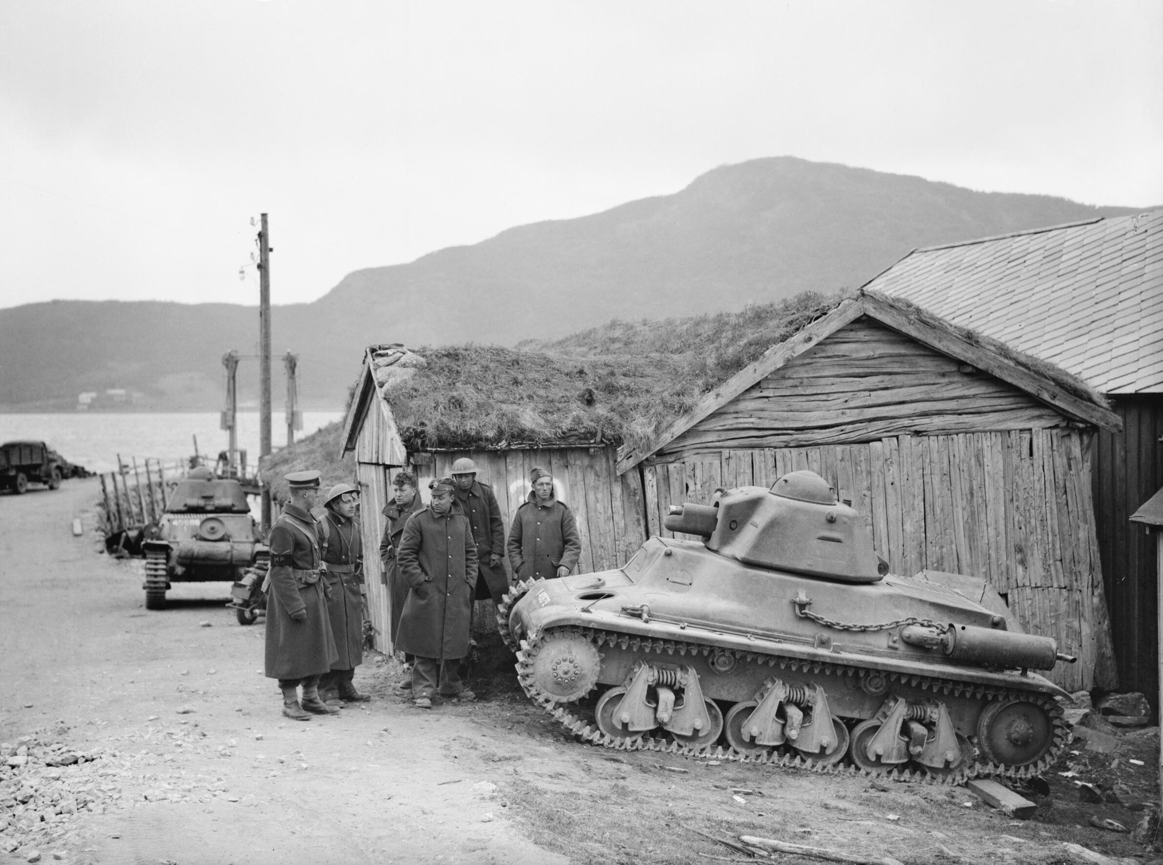 British troops with French Hotchkiss H39 tanks in Steinland, Norway, 1940. British troops talking to French and Polish (Independent Podhalan Rifles Brigade) soldiers around a French Hotchkiss H39 tank in Steinsland.